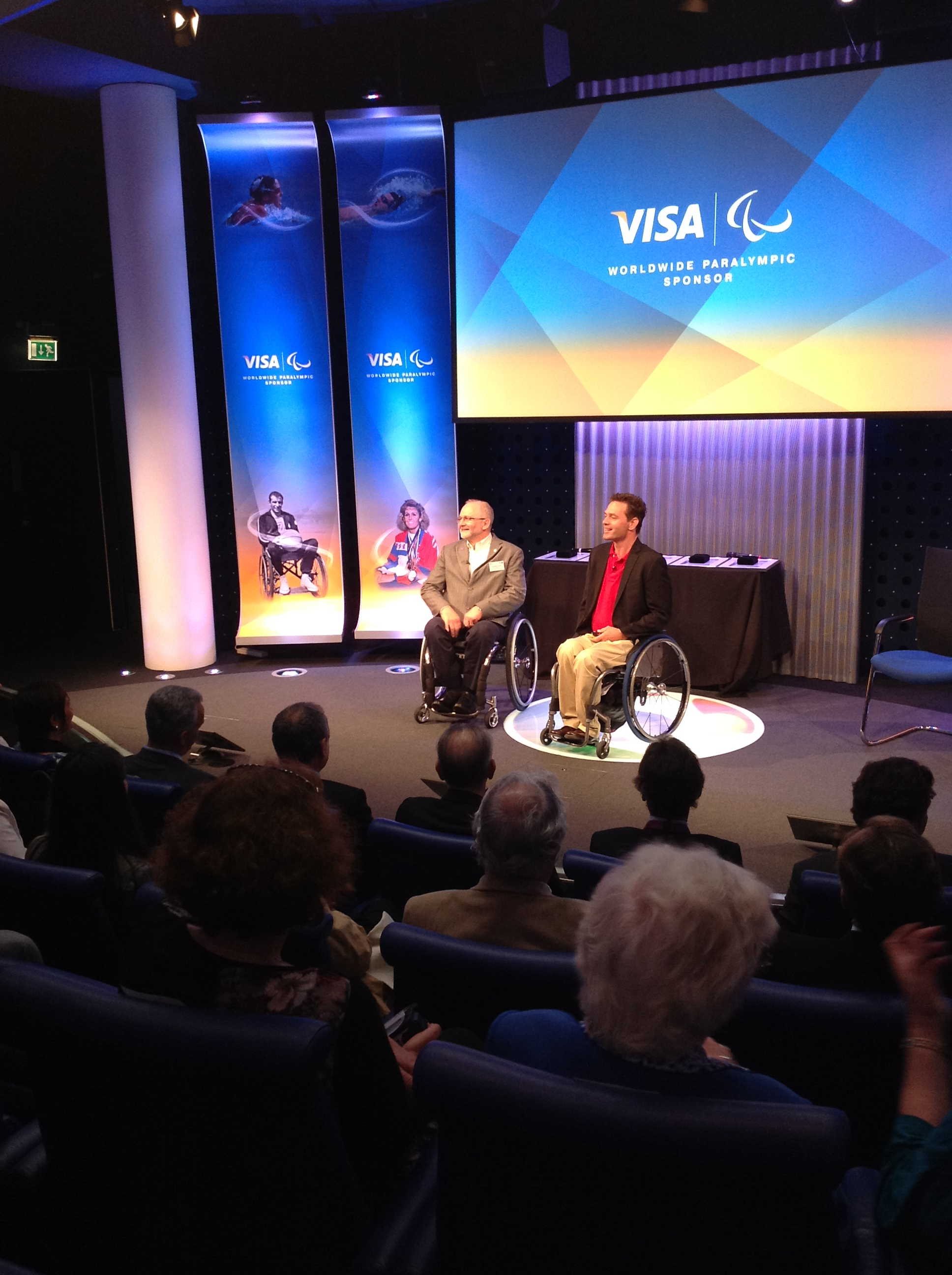 Picture from off Olympic venue taken at BT Centre of the IPC Hall of Fame induction ceremony.